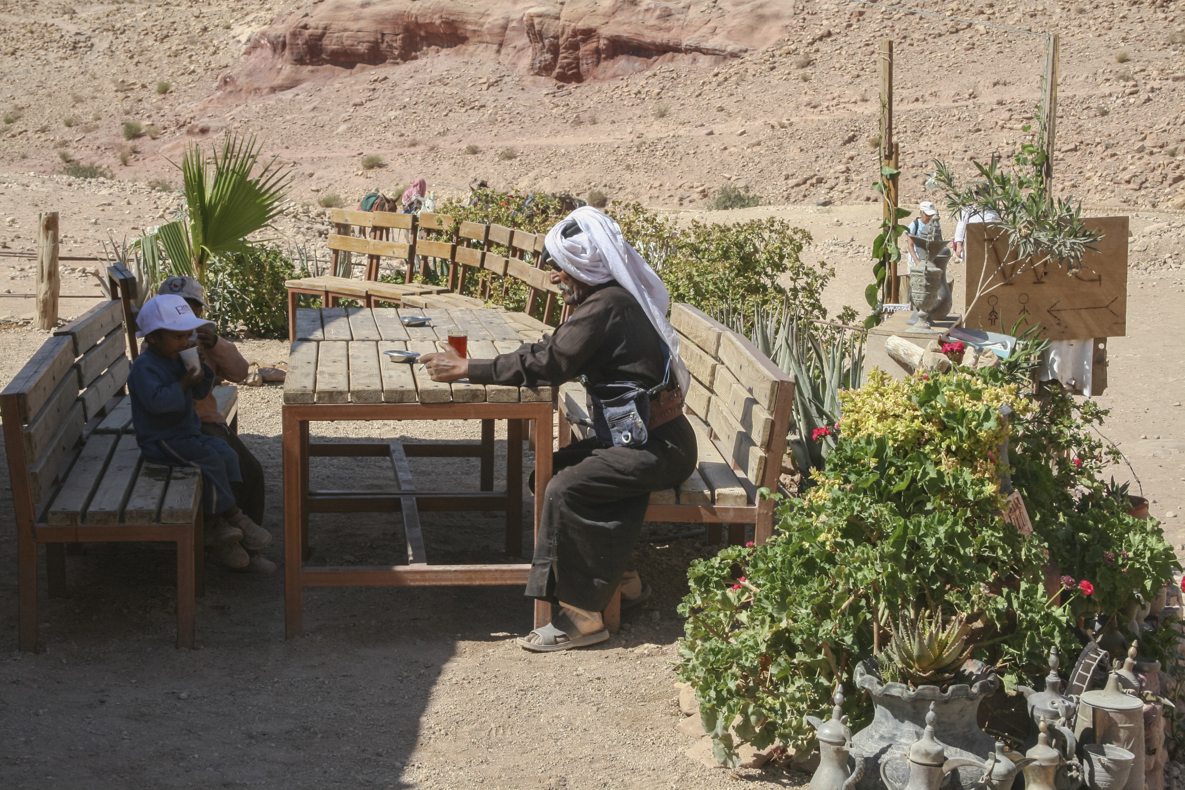 Bedouin having a tea in Petra, Jordan